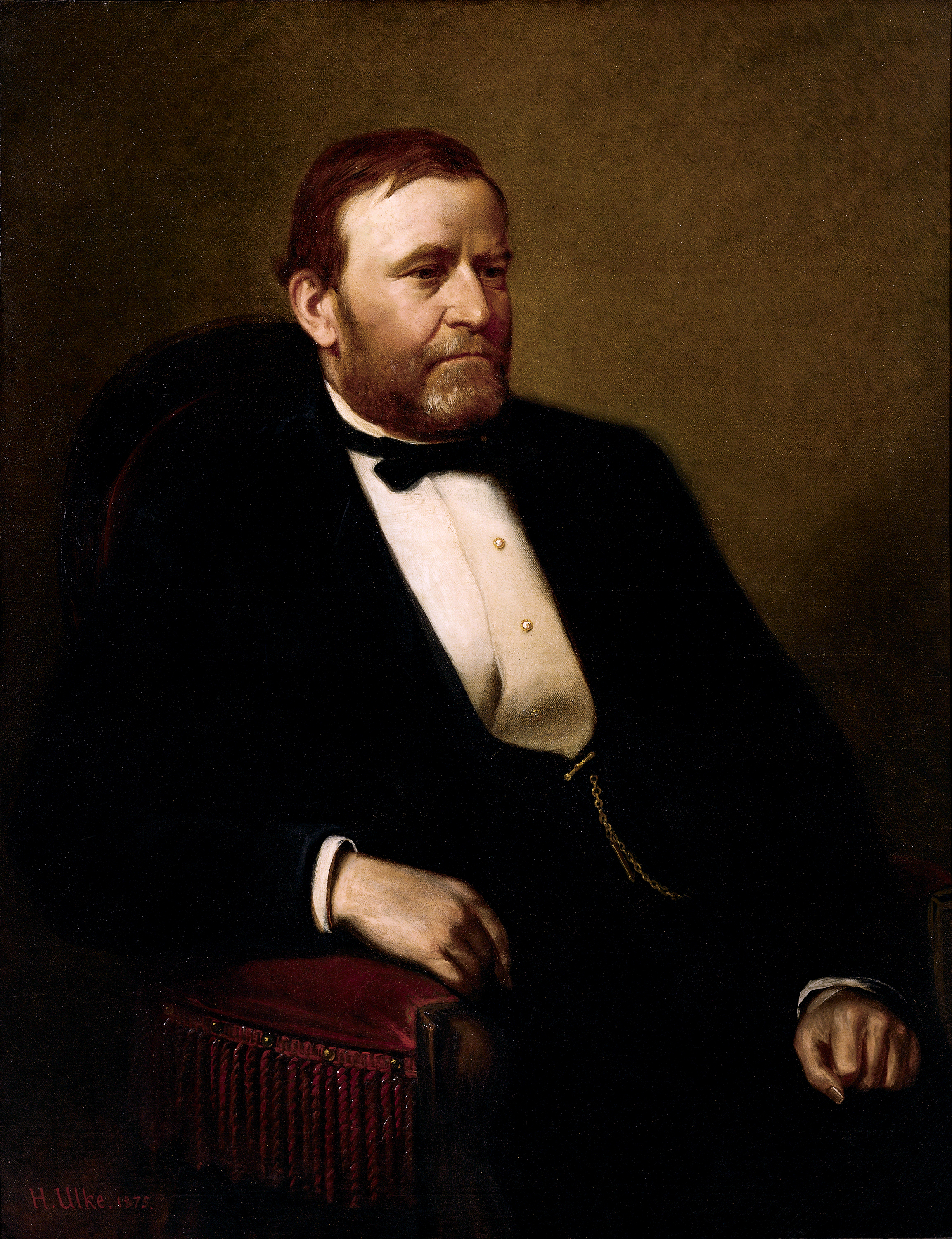 Official Presidential portrait of Ulysses Simpson Grant (1822-1885)